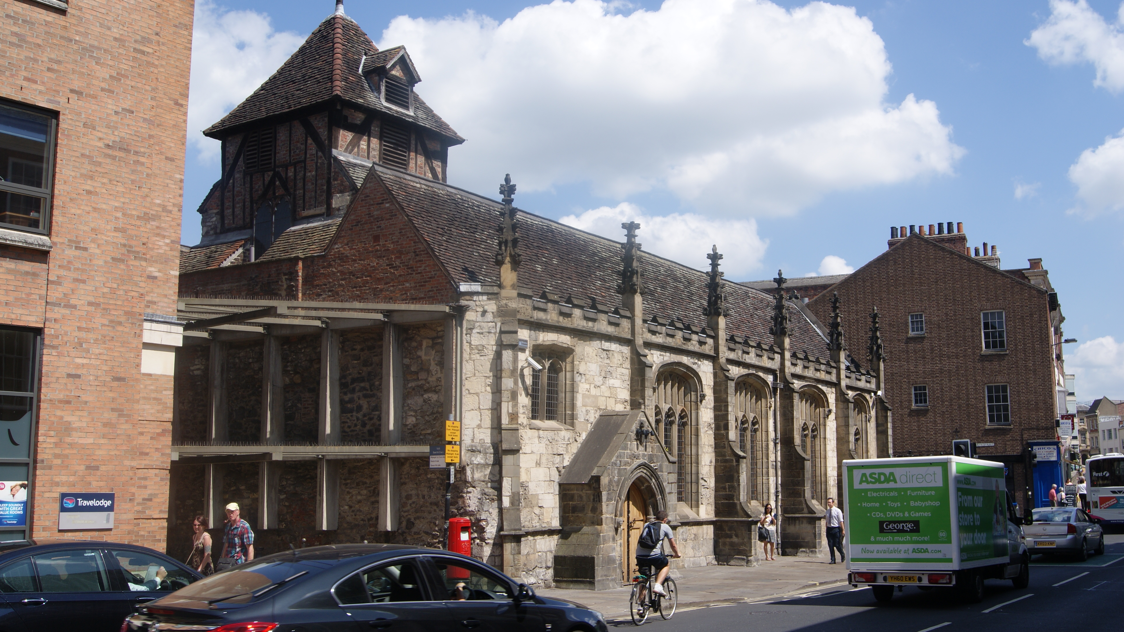 Former parish church of St John the Evangelist, Micklegate, York, England, seen from the southwest